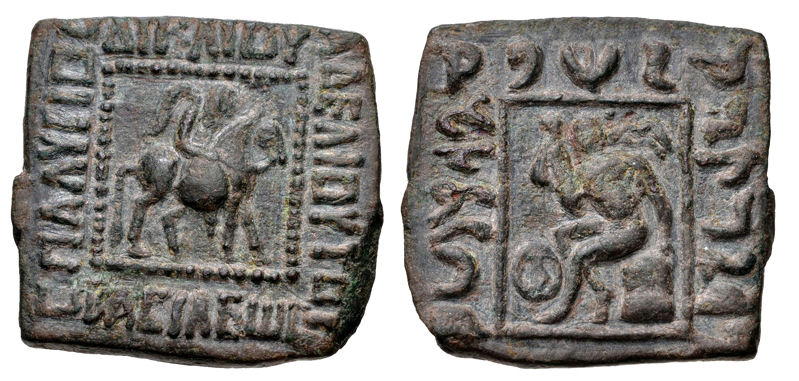 Spalahores with Spalagadames Herakles type